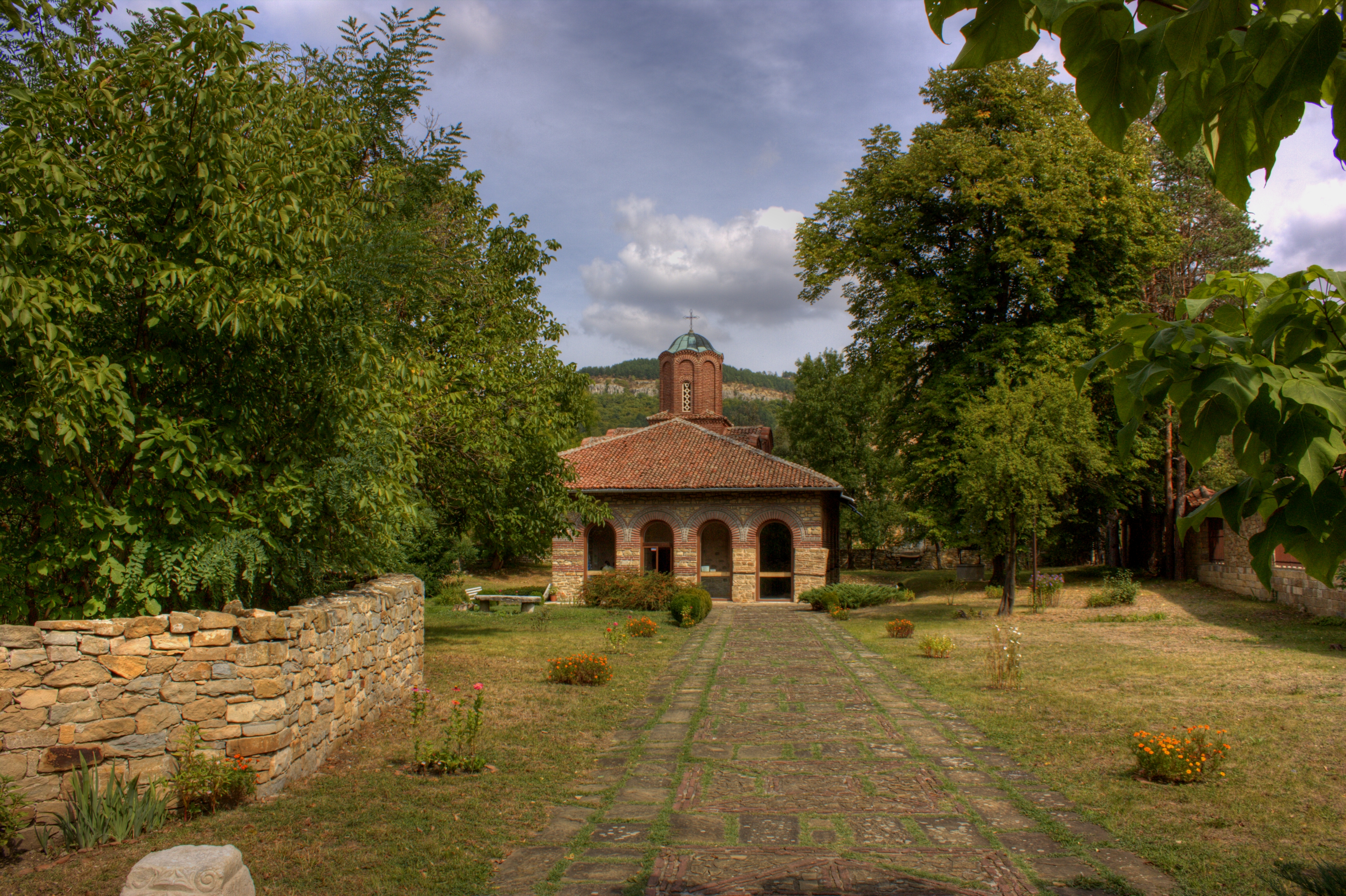 Church of SS. Peter and Paul, Veliko Tarnovo, Bulgaria